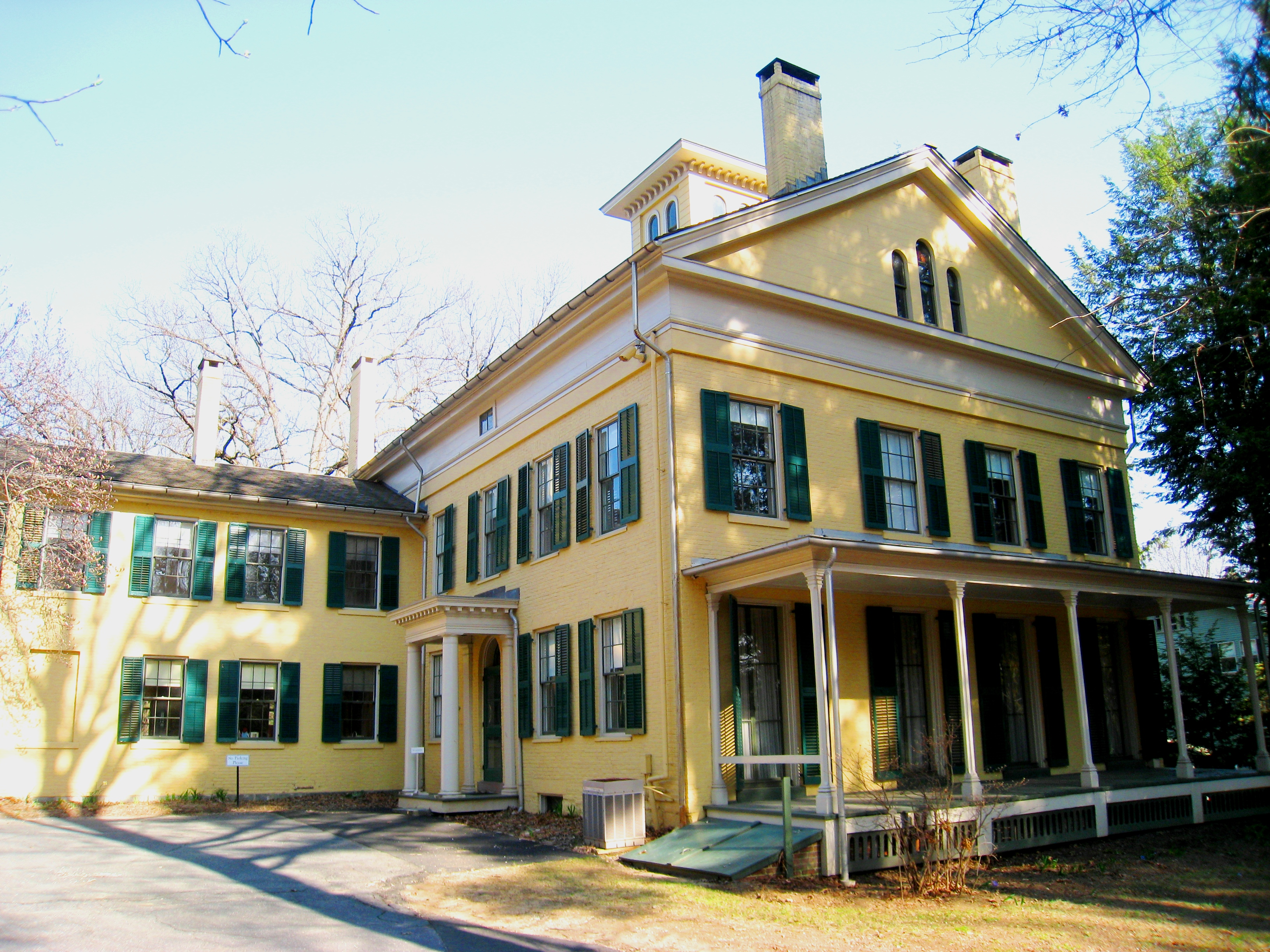 Emily Dickinson Museum, Amherst, Massachusetts - rear oblique view of Emily Dickinson's house.